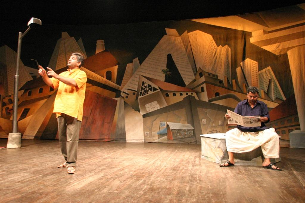 This is an image from my new play Cotton 56, Polyester 84 that tells the story of the cotton mill district of Mumbai city, India. Kaka and Bhausaheb, mill workers who have lost their jobs, relate the story of their lives. The mill district in Mumbai has been one of the important factors for Mumbai's prosperity and cosmopolitan character. It is in the news because of the controversial sale of lands the old mills stood on. Mill workers who lost their jobs when the mills shut down want some of the money from the sale to go to them and their families. They also want some of the land to be used to build low cost housing for them. Citizens groups support their demand and want some of the land to be made into open spaces for the city. But the government and the builders' lobby wants to convert as much land as possible into shopping malls and entertainment centres.